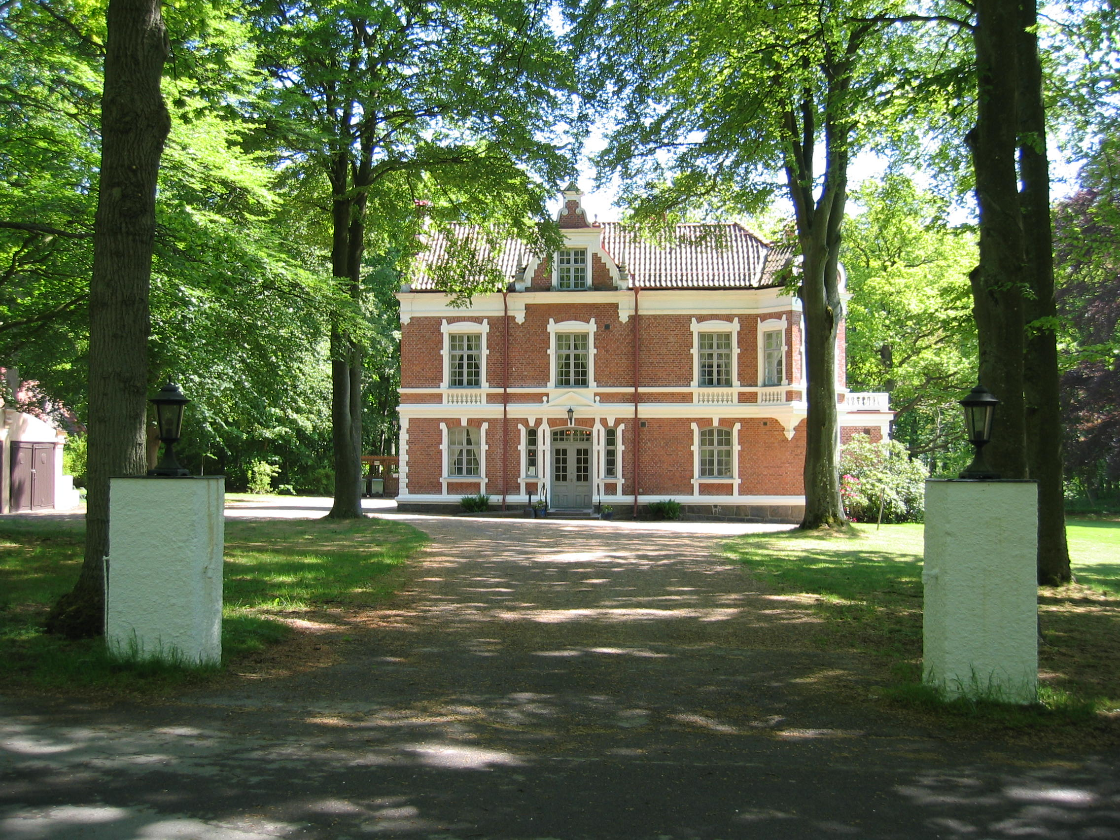 Park setting in Valhall Park and Castle entrance